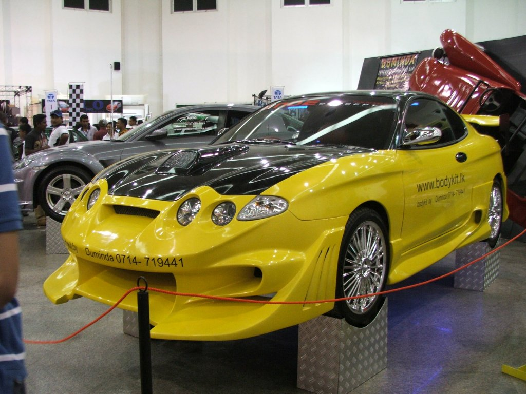 Hyundai Coupe/Tiburon with body kit at Ceylinco Motor Show (July, 2006)